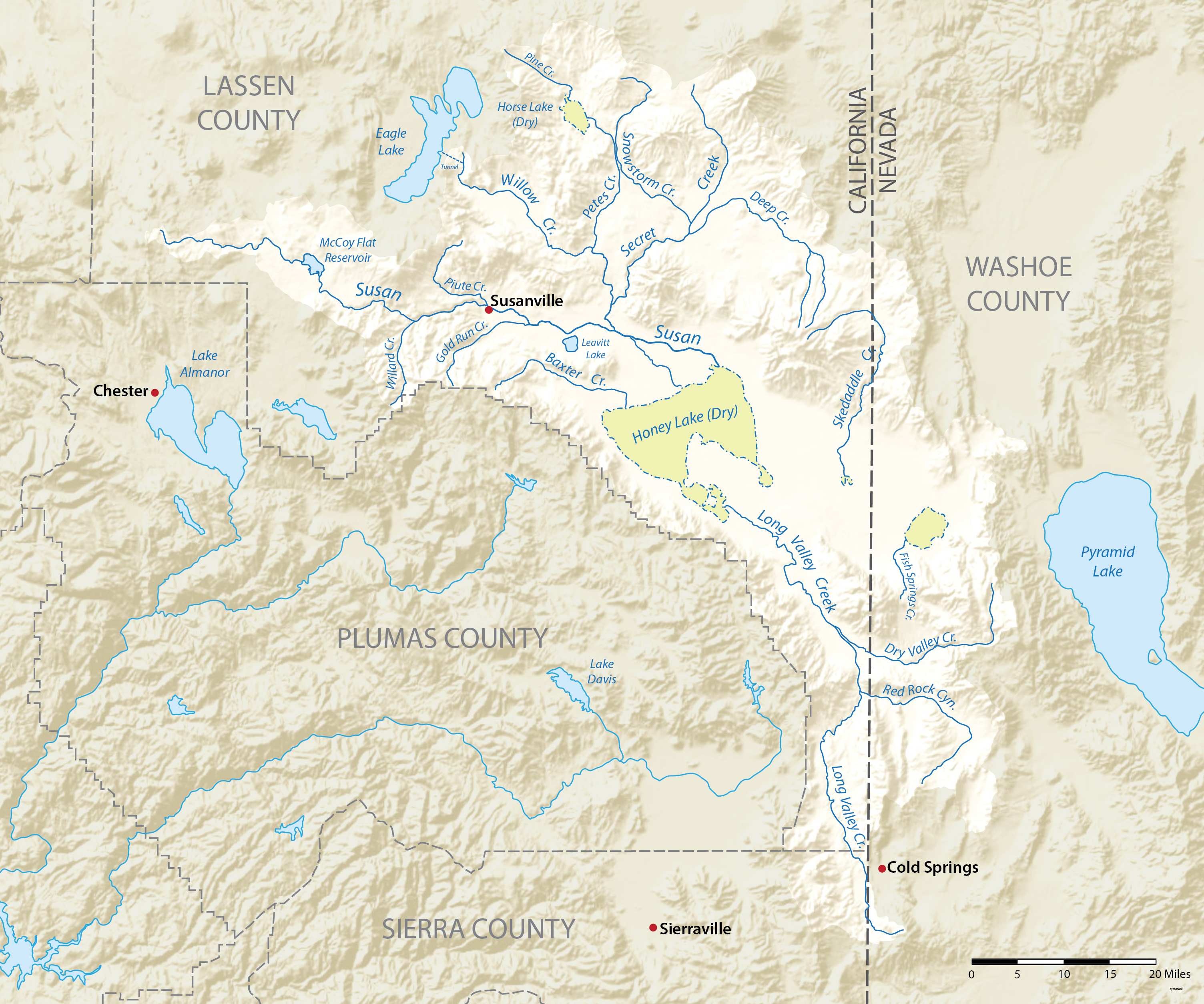 Map of the Honey Lake endorheic basin in eastern California and west Nevada, USA, showing the primary tributaries, Susan River and Long Valley Creek. Watershed boundary data and shaded relief from the USGS National Map.